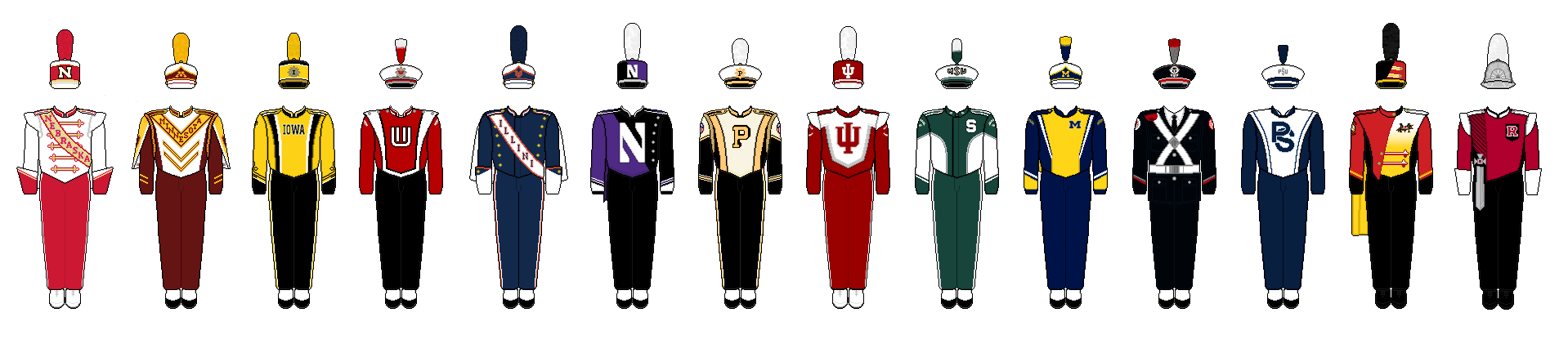 Uniforms worn by the marching bands of the Big Ten Conference, as of May 2017. From left to right: Nebraska, Minnesota, Iowa, Wisconsin, Illinois, Northwestern, Purdue, Indiana, Michigan State, Michigan, Ohio State, Pennsylvania State, Maryland, and Rutgers.